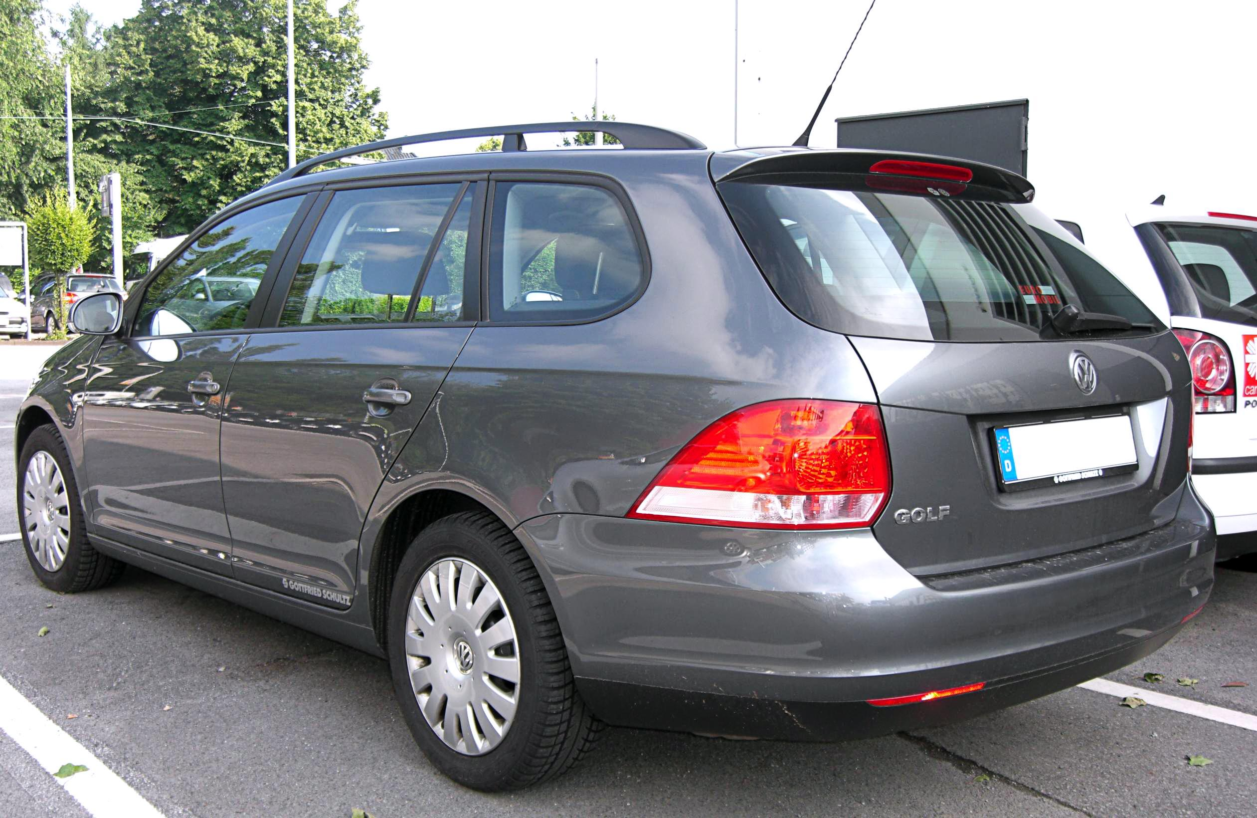 VW Golf Variant